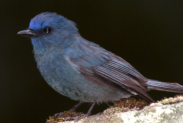 Niligiri Flycatcher photographed in Ooty India by Prasad Basavaraj